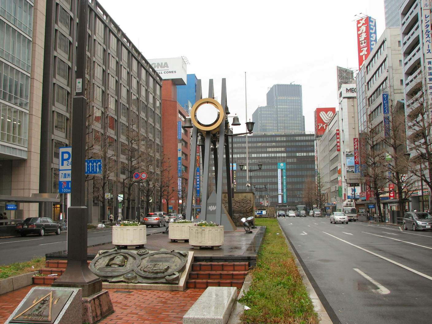 Peace carillon and plaque Jan Joosten van Lodensteyn en het galleon "De Liefe" in de Chuoku Yaesu street in Tokyo (district Yaesu).